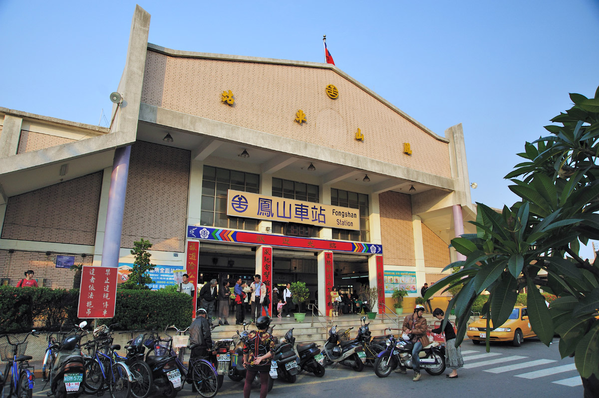 FongShan Station is a local station of TRA PingTung Line and also served as the main station of FongShan City.